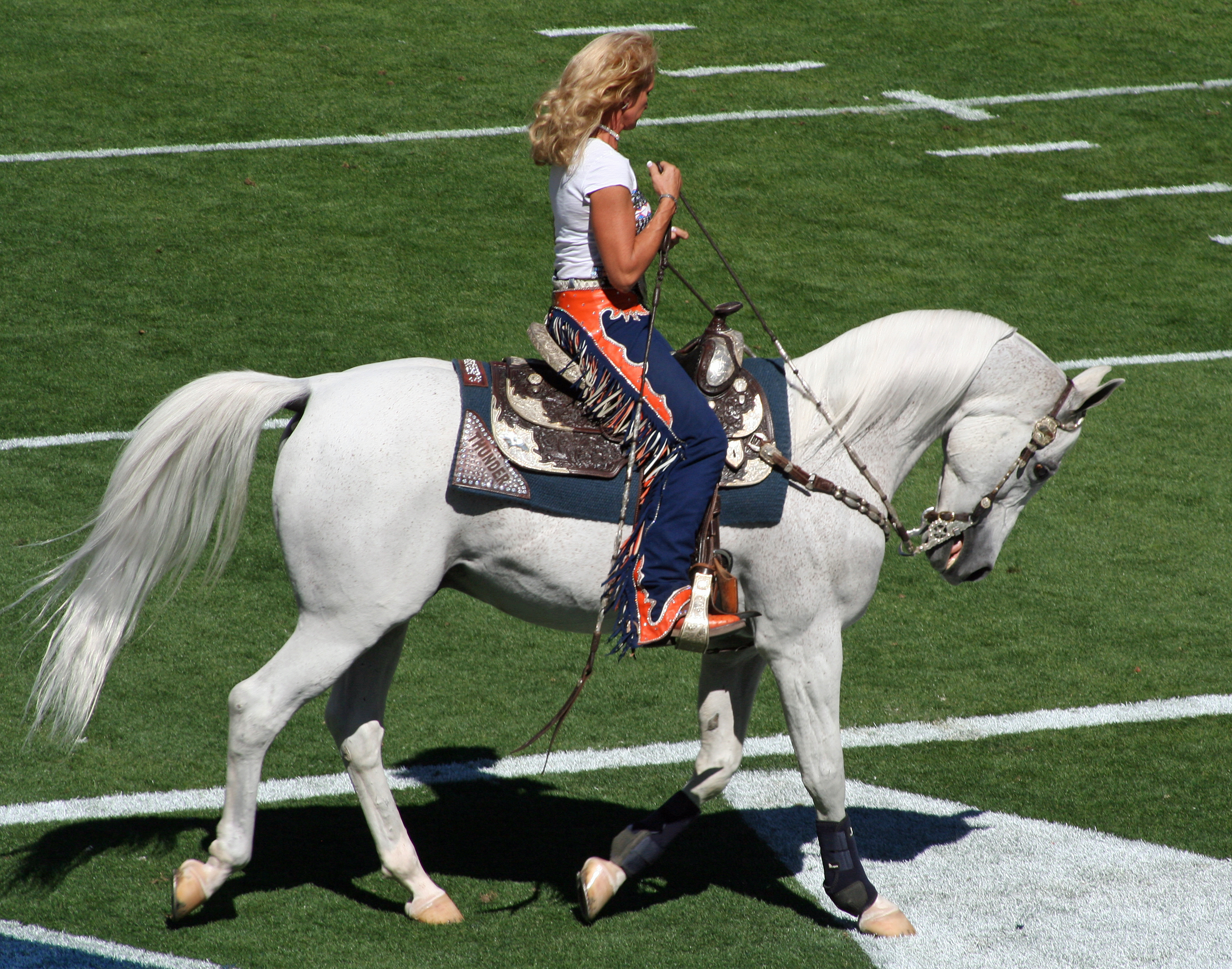 Thunder II and Ann Judge-Wegener "Running around the field before the game."